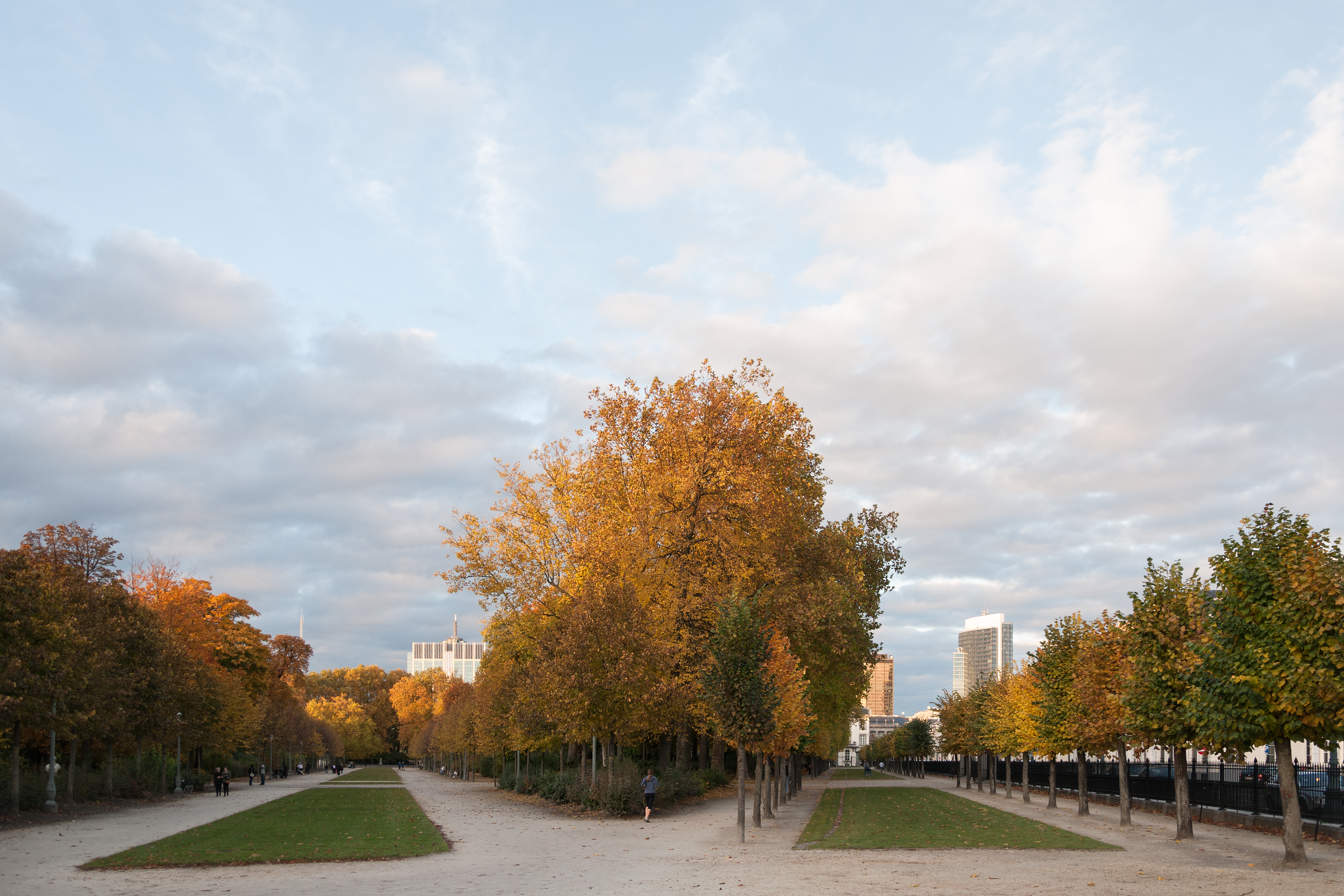 Parc de Bruxelles - Bruxelles, Belgium